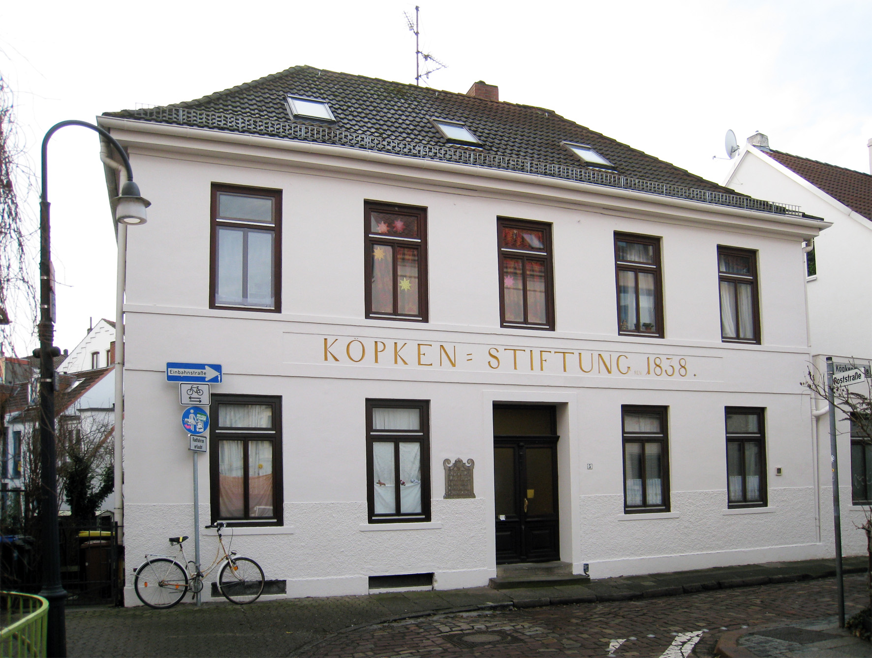 Building of the foundation “Gottesbuden Senator Heinrich Köpken-Stiftung” in Bremen, Germany.